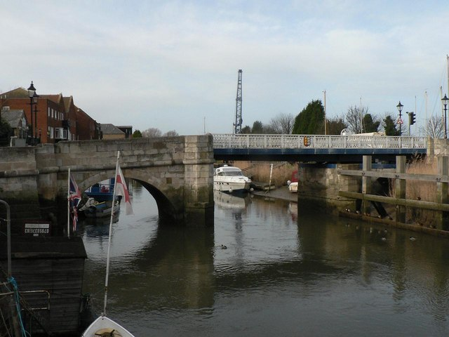 Sandwich: town bridge This is the farthest crossing downstream over the Stour. It is also the first to be encountered (apart from the modern by-pass) for several miles inland.